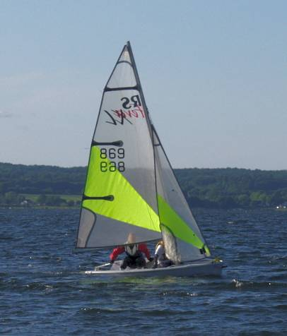 One of two Feva boats in Præstø Sailing Club